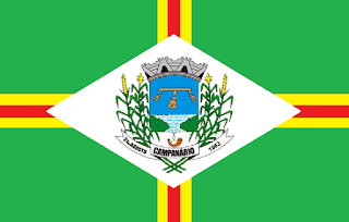 Flags of the city of Campanário, Minas Gerais, Brazil.